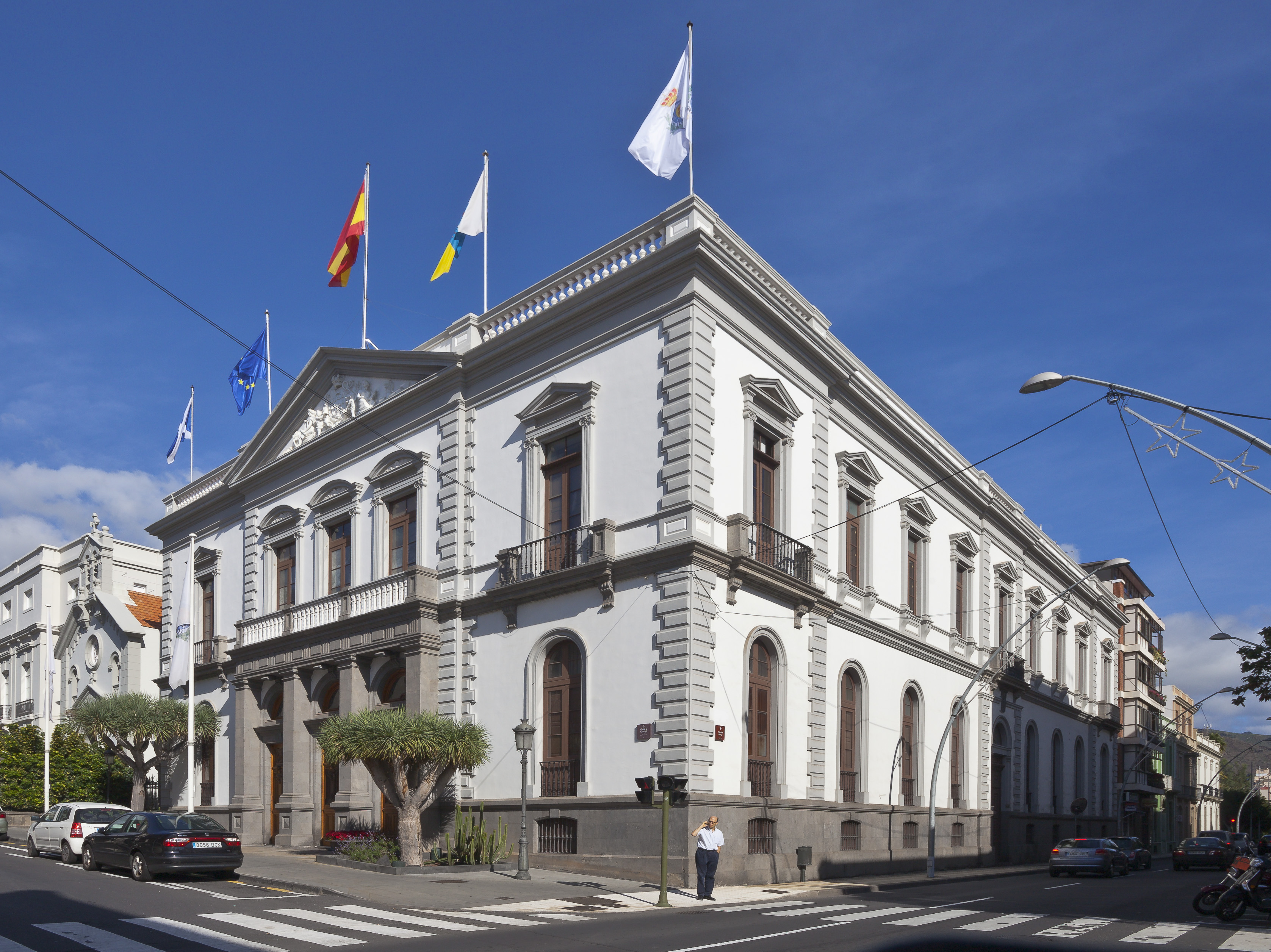 Town Hall, Santa Cruz de Tenerife, Spain